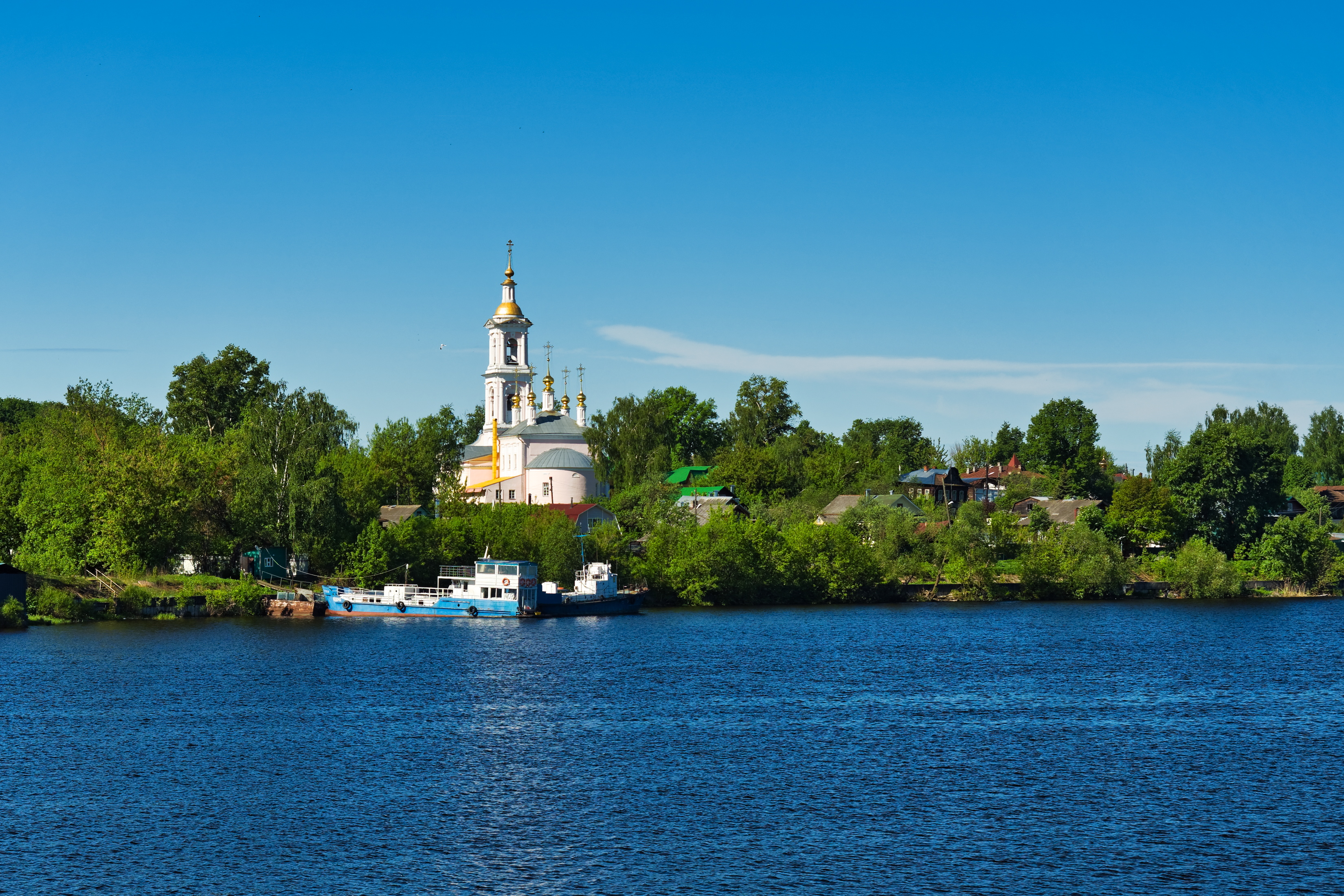 Volga River. Kimry. The Ascension Church